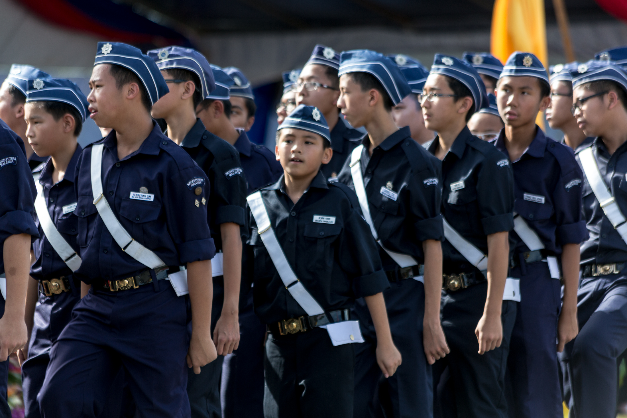 Kota Kinabalu, Sabah, Malaysia: Parade during Celebrations of Hari Merdeka 2013 in Likas on August 31, 2013